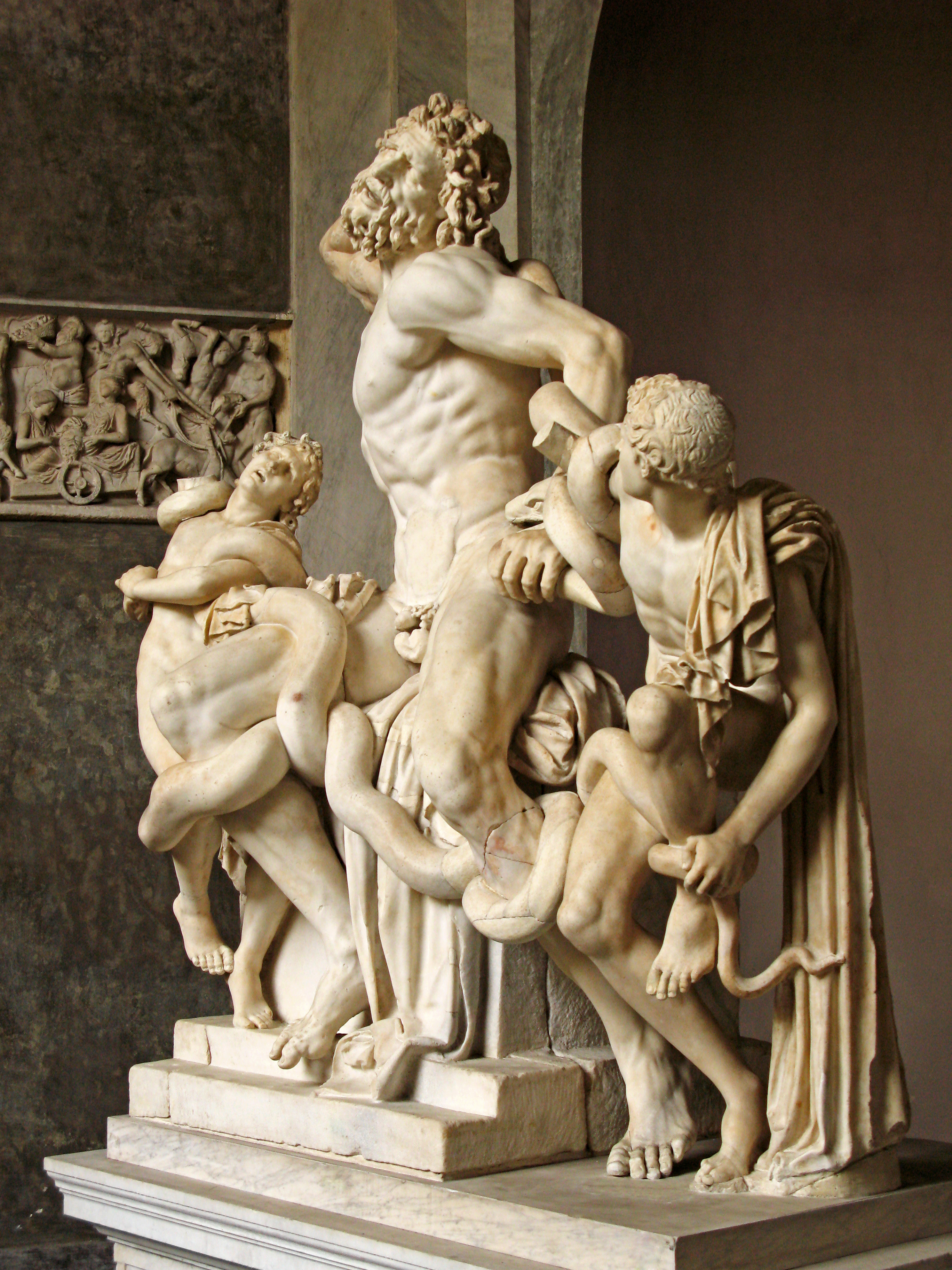 The statue of Laocoön and His Sons, also called the Laocoön Group in the Vatican Museums.